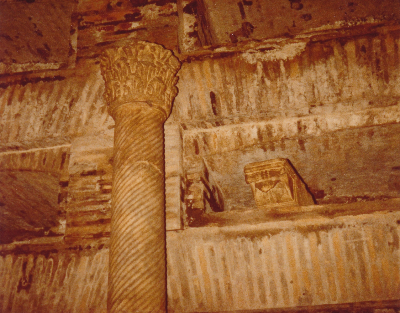 Rome 1981 Sears easi-load 310